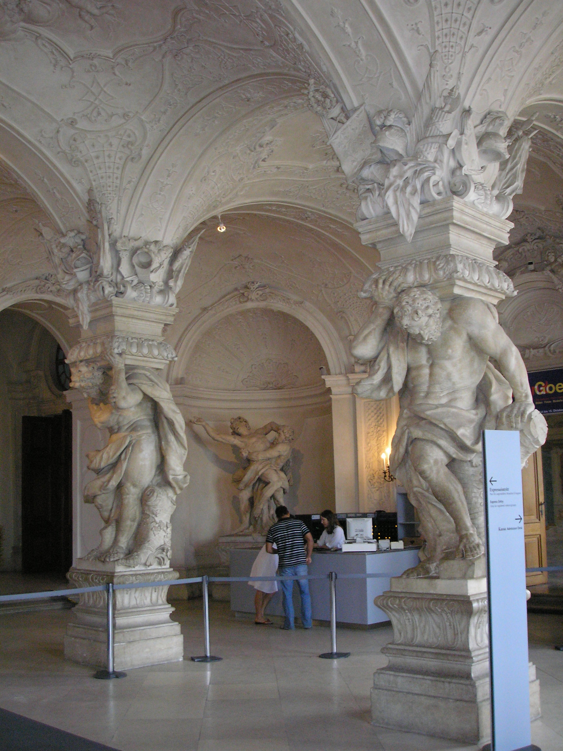 Interior of Upper Belvedere palace in Vienna. Constructed in the baroque era for Prince Eugene of Savoy. This was his summer residence.